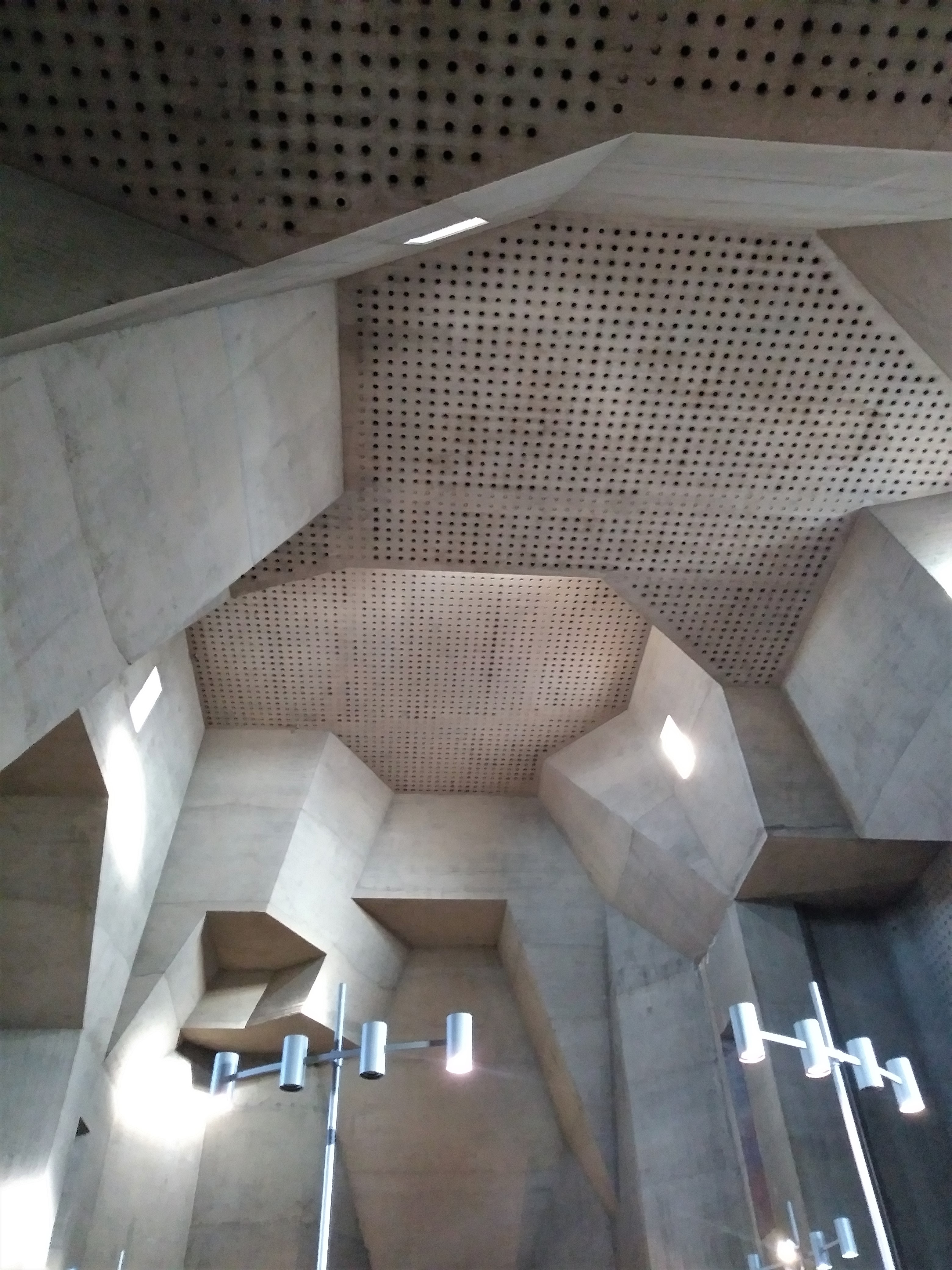 Interior of St. Ludwig (Saarlouis)